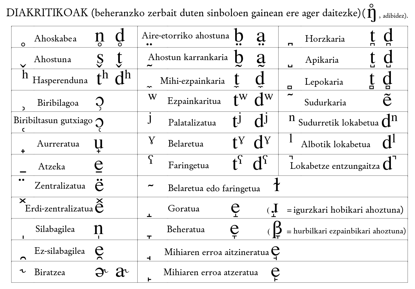 International Phonetic Alphabet translated into basque. Diacritics.